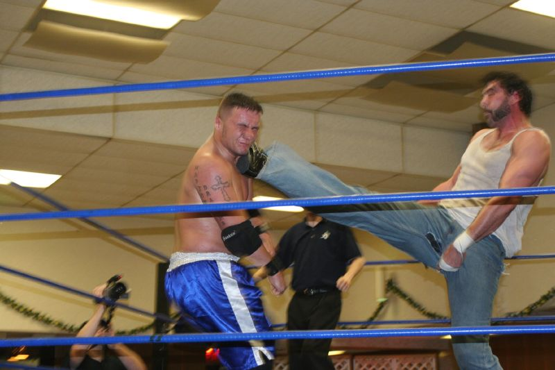 Professional wrestler Brodie Lee big booting Drake Younger at a Chikara show on June 15, 2008